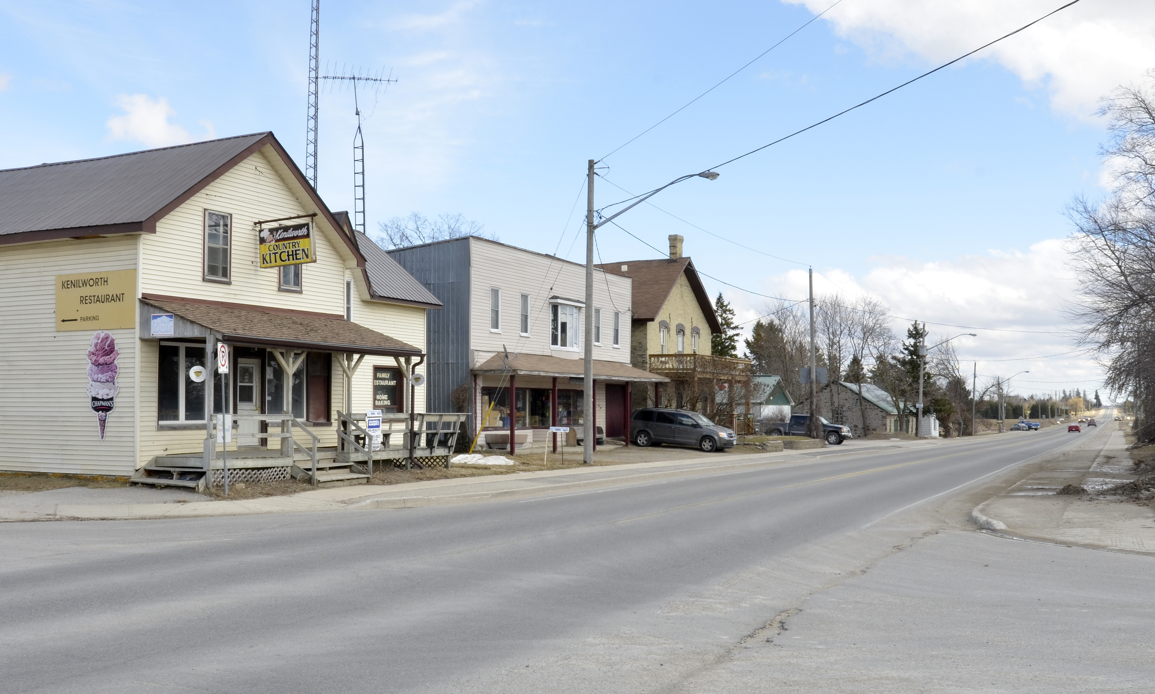 Looking southeast on Highway 6 in Kenilworth, Ontario.